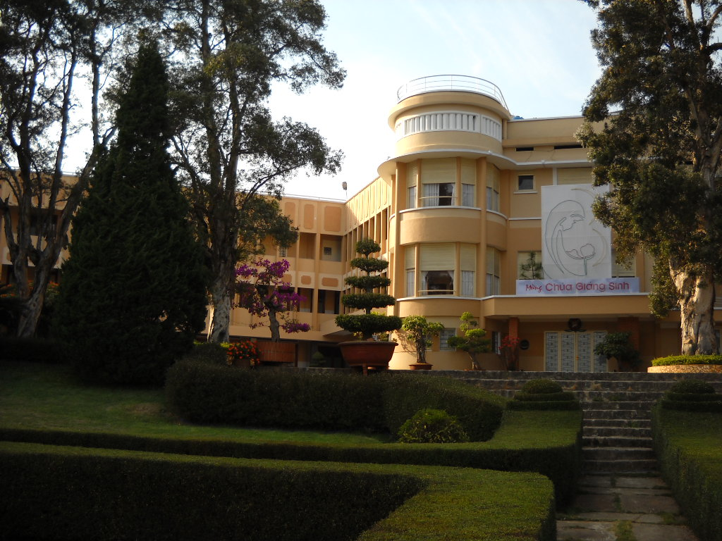 Bishop's Palace, Da Lat